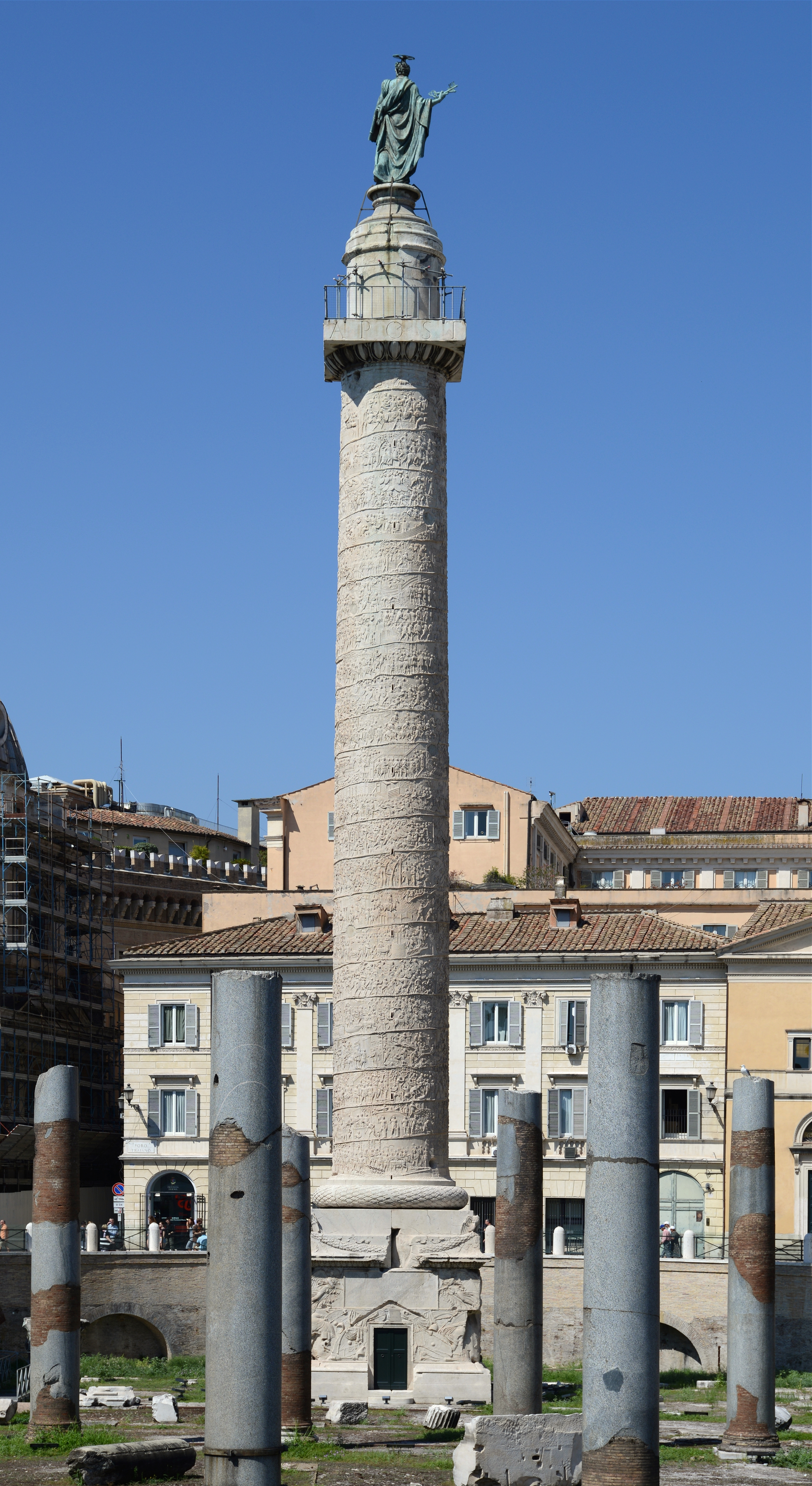 The Column of Trajan, in Trajan's Forum, Rome